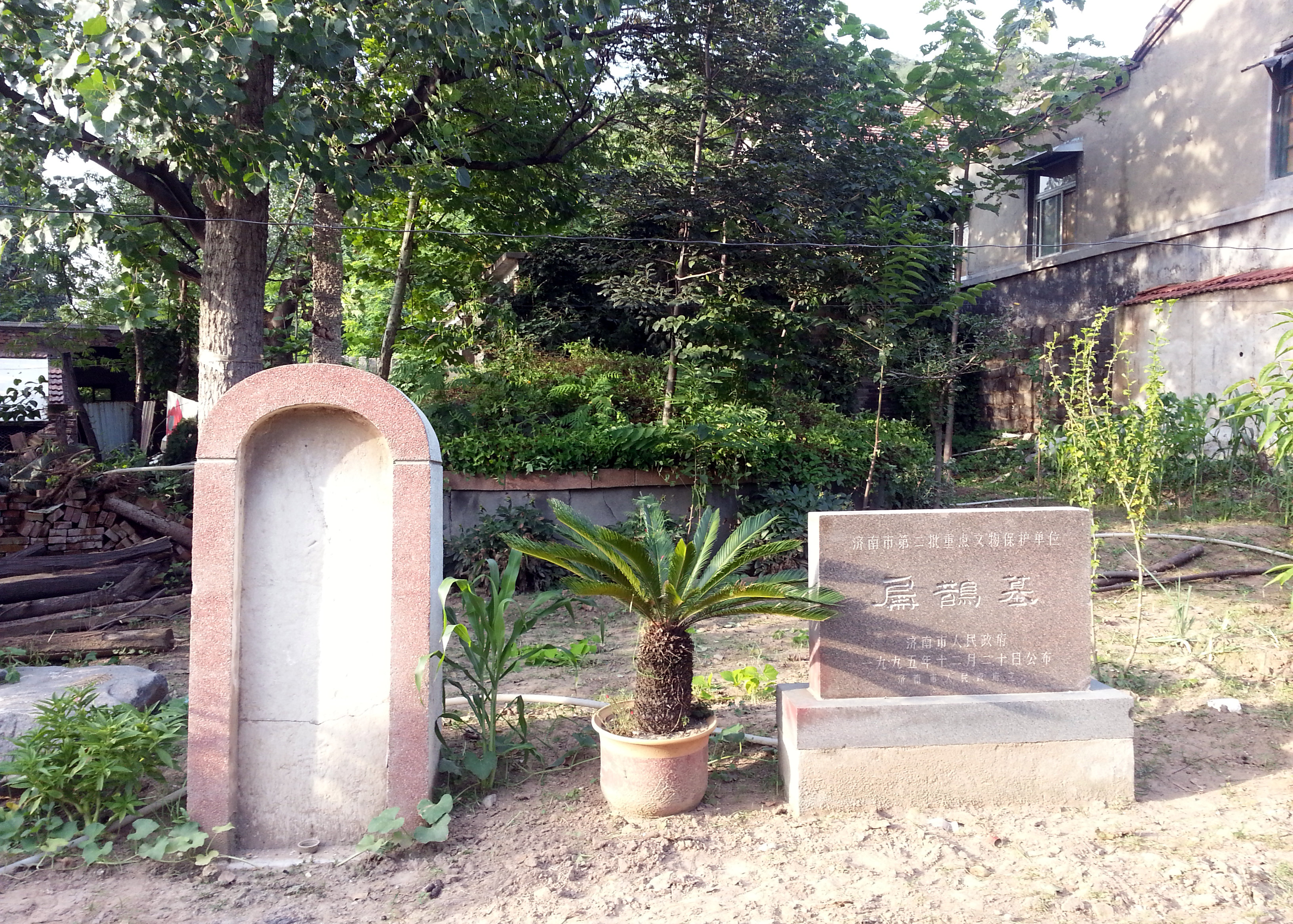 Photograph of the tomb of Bian Que in the yard of home on the foot of Que Hill, Jinan, Shandong, China.